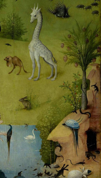 The tomb of Adam